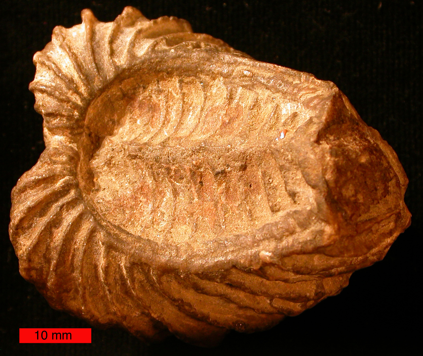 Trigonia sp. from the Glen Rose Formation (Cretaceous) near Austin, Texas. Scale bar is 10 mm.